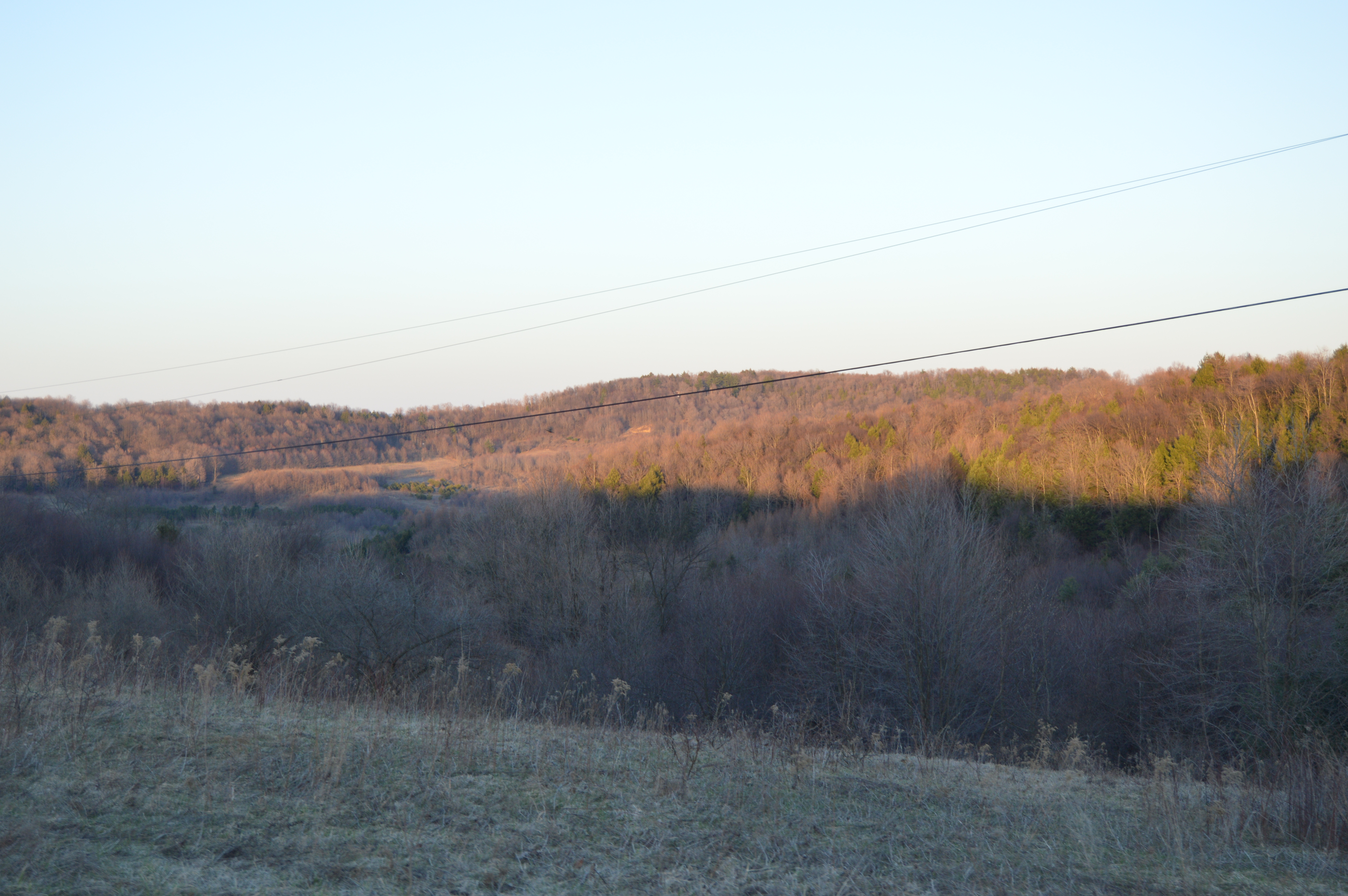 Forests along Cherry Corner Road east of Mahaffey in Ferguson Township, Clearfield County, Pennsylvania, United States.